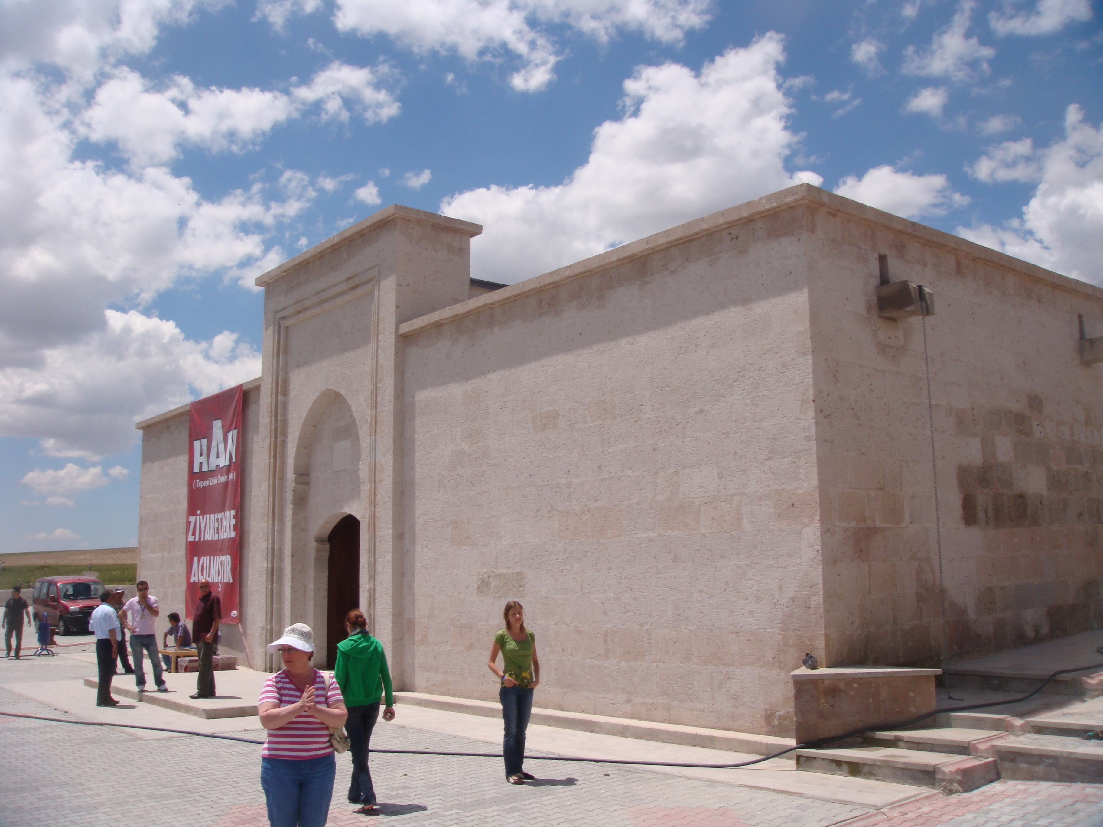 Örsin Han,also called Öresun Han, Tepesi Delik Han; built 1188.